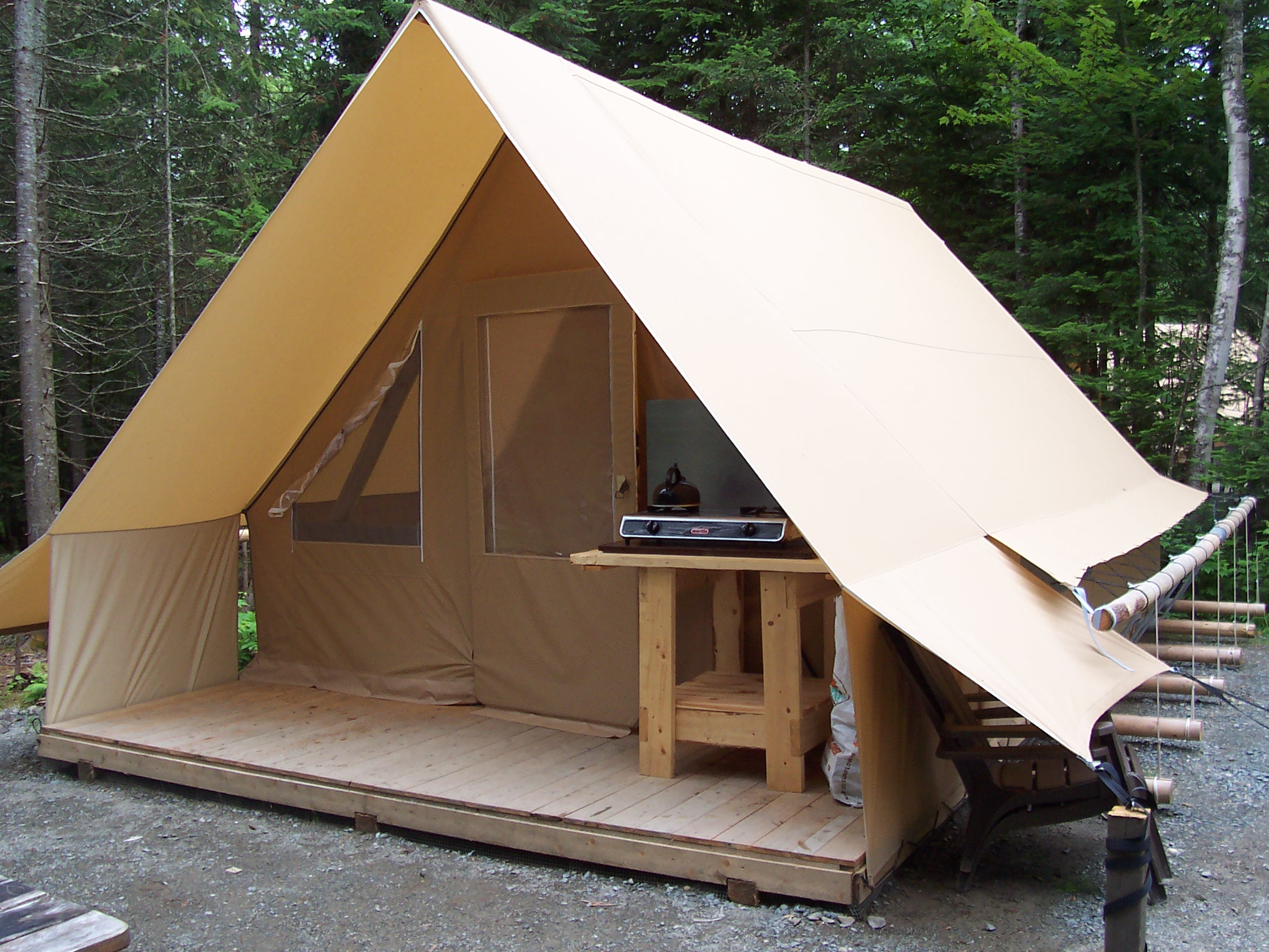 Huttopia tent - St-Daniel sector - Frontenac National Park (Québec, Canada) - July 2008